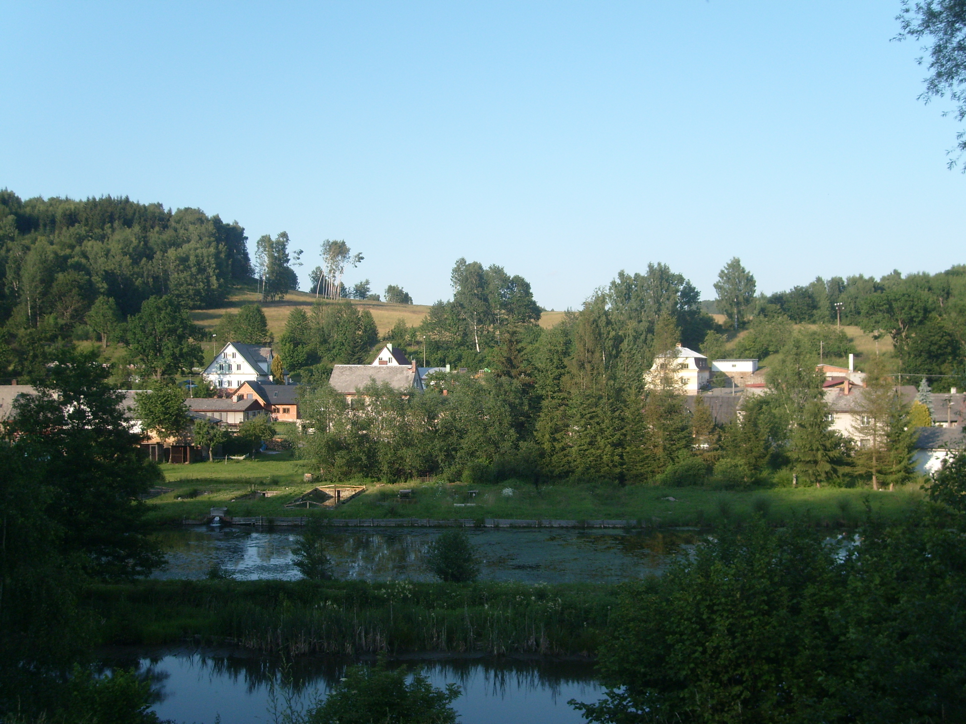 Dolni Teplice, Teplice nad Metují, okres Náchod. V popředí místní rybníky.